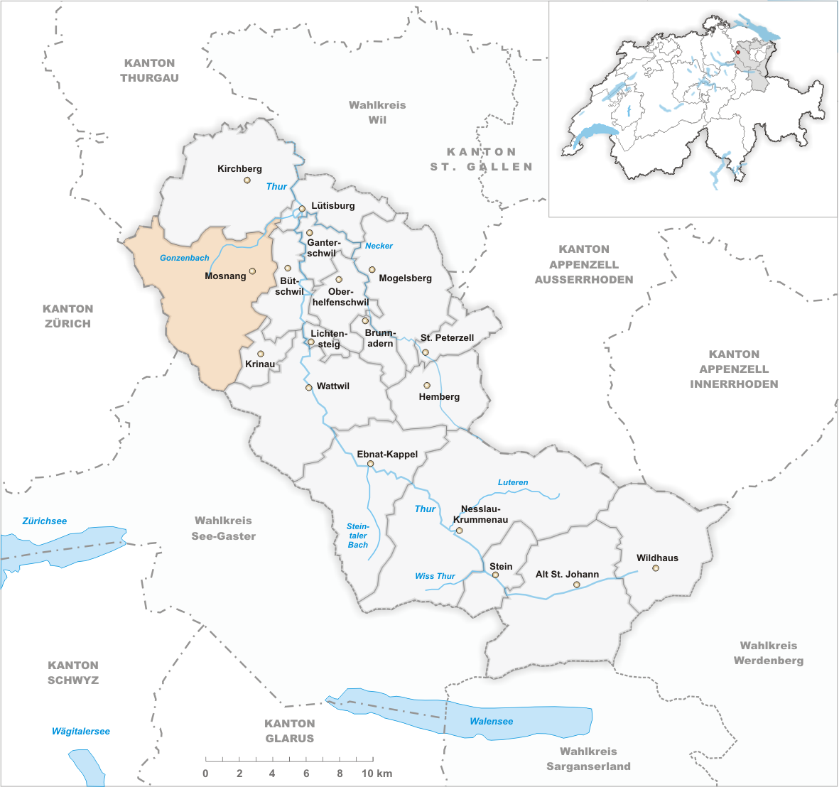 Municipality Mosnang